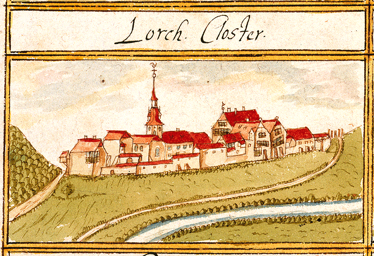 View of Lorch Monastery, Lorch, from the forest register books created by Andreas Kieser